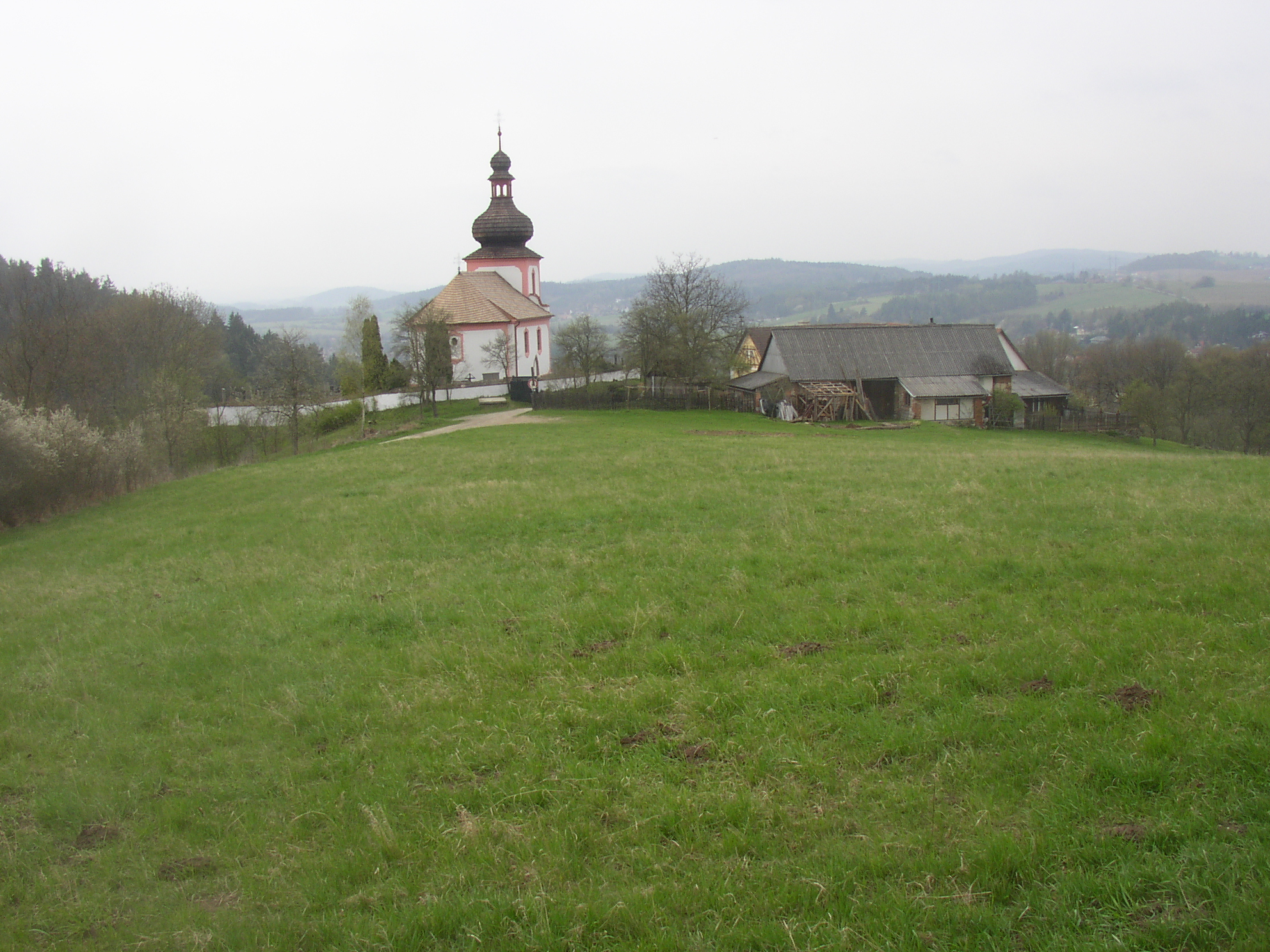 Church of St Clement at former early medieval fort of Hradiště near Lštění, Benešov District, Czech Republic.